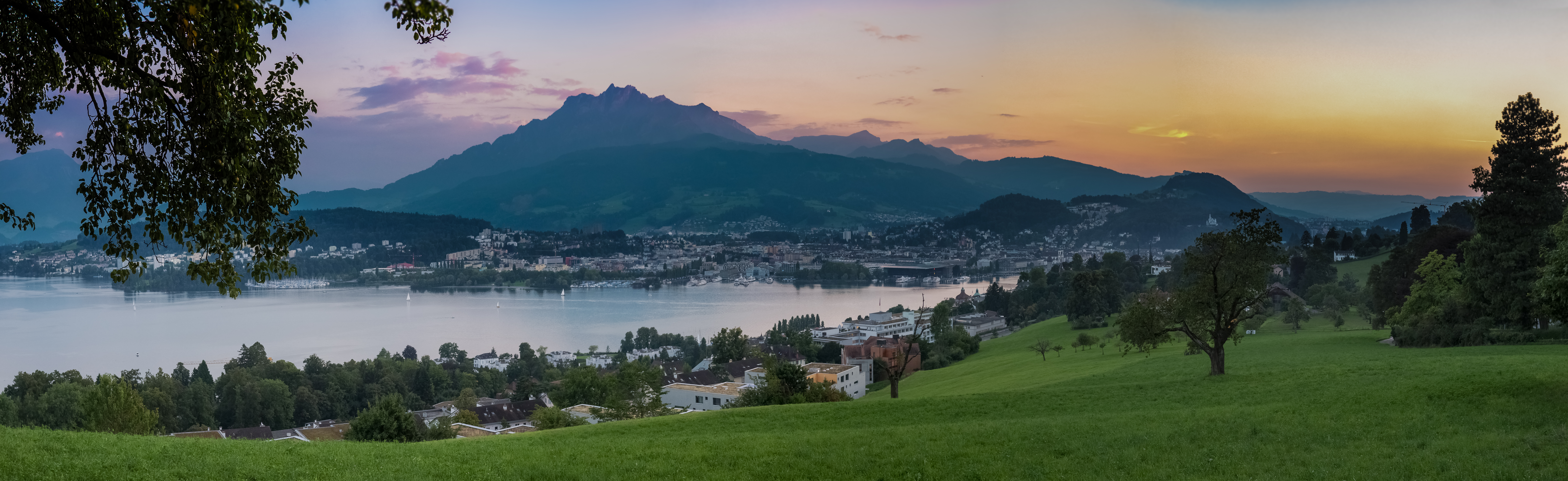 View of Lucerne, Lake Lucerne and Mount Pilatus